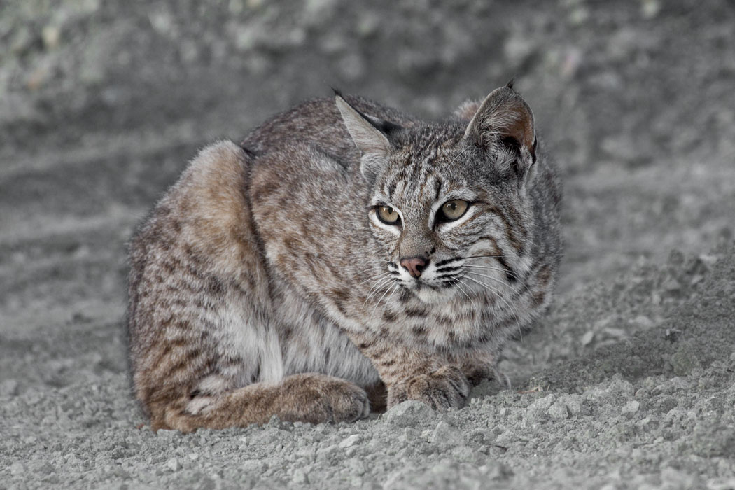 Bobcat (Lynx rufus), resting. Montana de Oro State Park, San Luis Obispo Co., California, USA. I have made several forays to catch this uninhibited cat. There has been lots of waiting involved, but often a sighting.